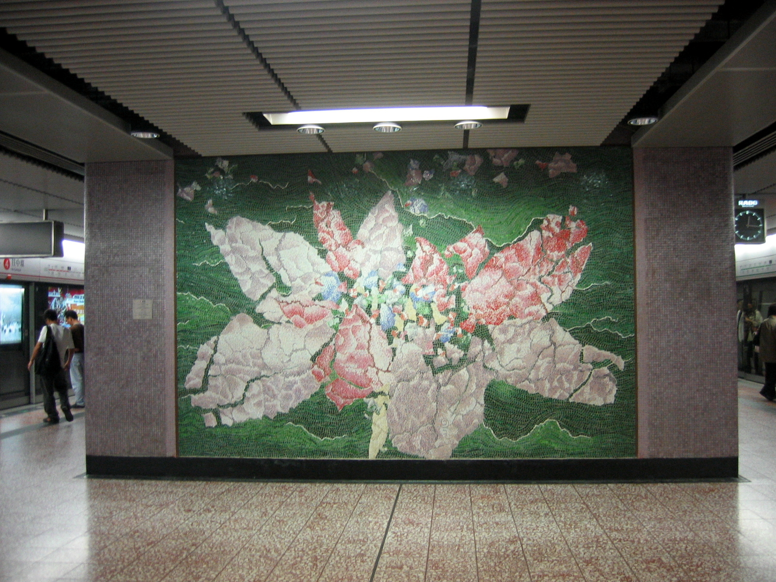 Art Decoration in Prince Edward Station